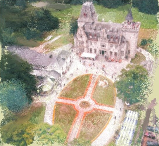 Bird eye view of Bhaktivedanta College and Radhadesh